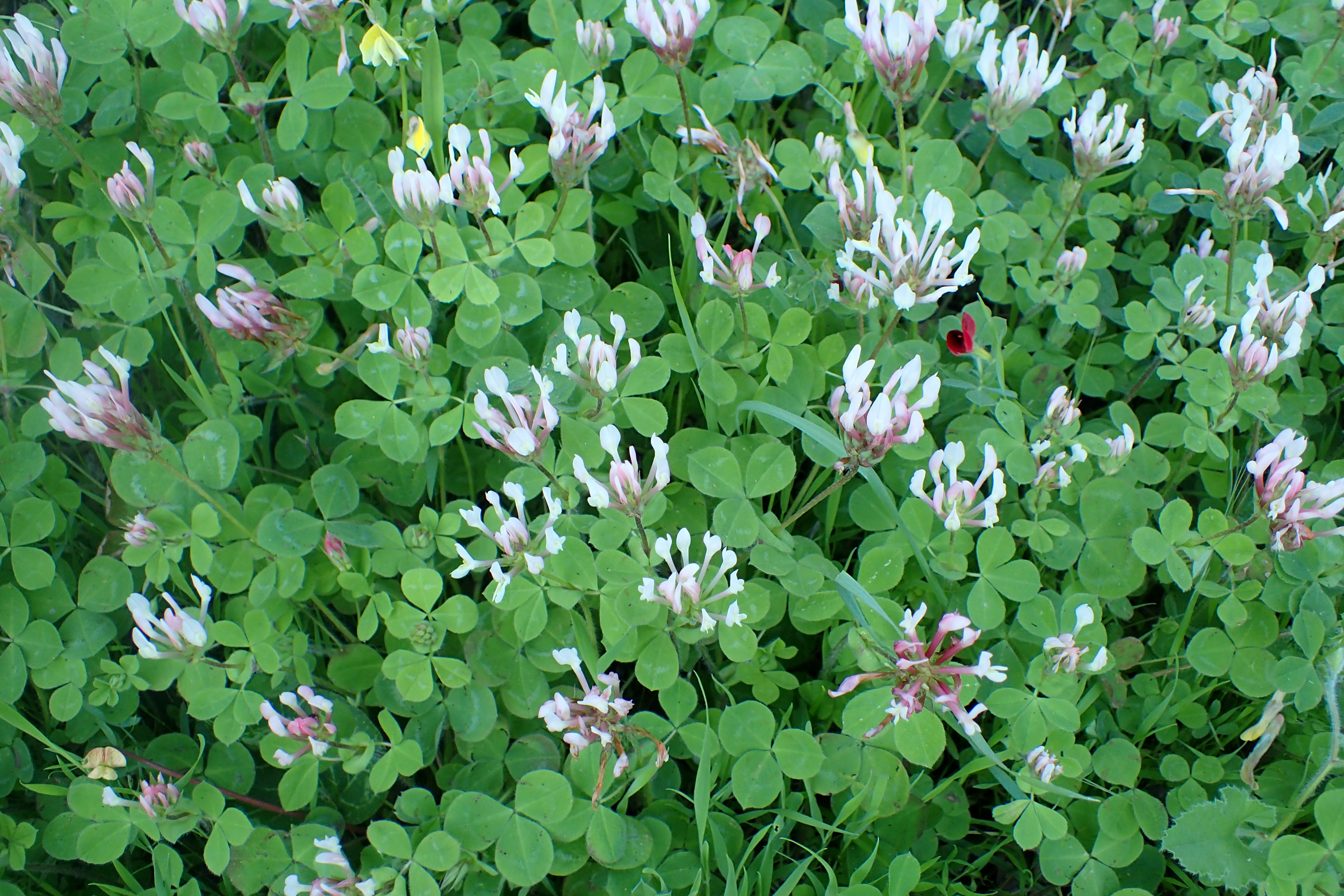 Trifolium clypeatum on Akamas Peninsula, Cyprus